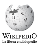 Wikipedia logo 2.0